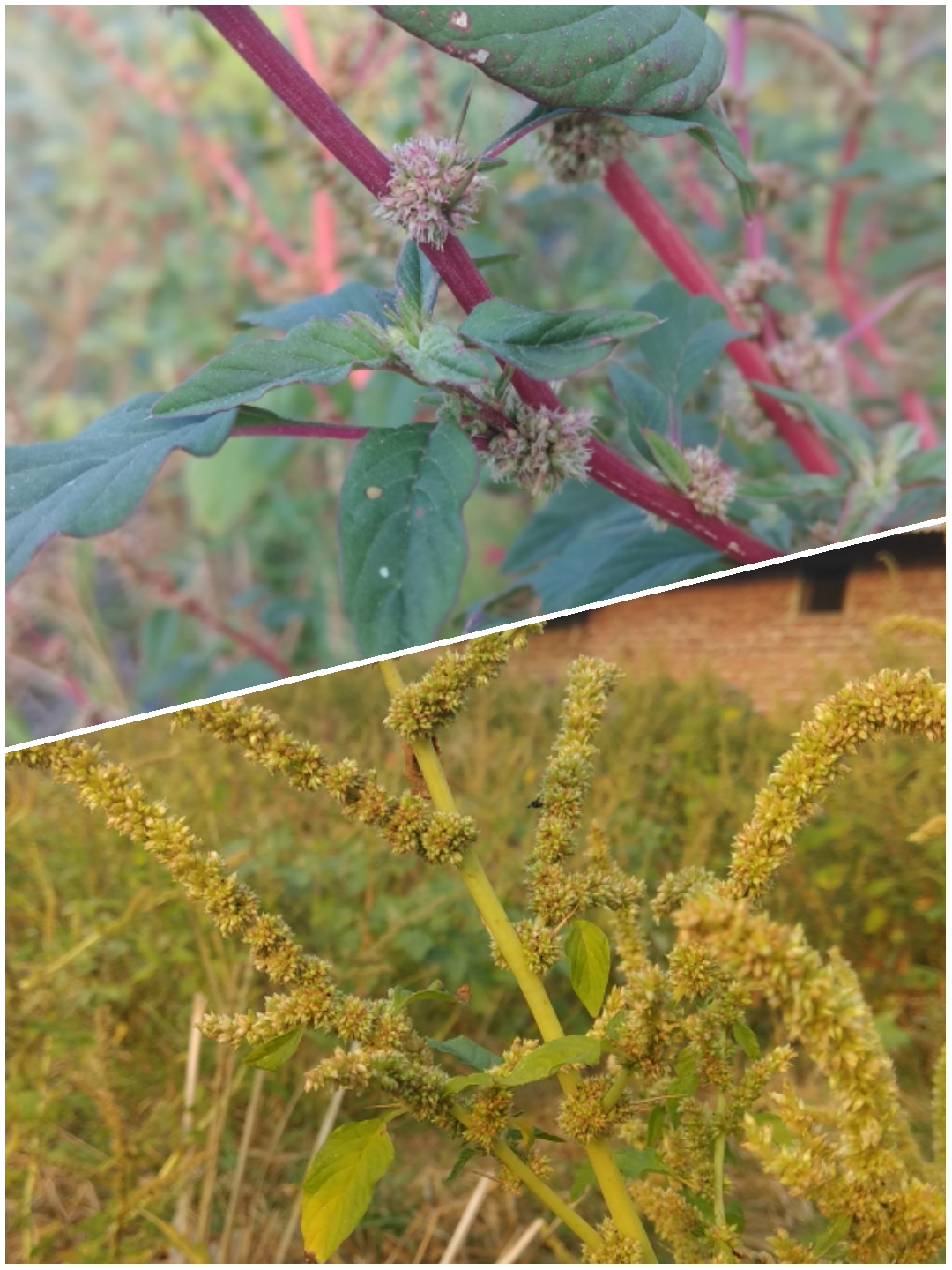 amaranthus spinosus collage